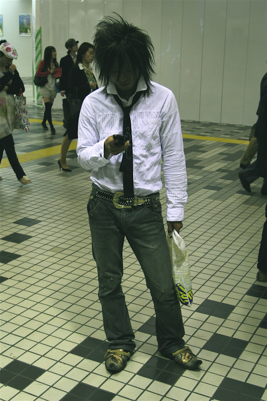 Japanese surfer hairstyle